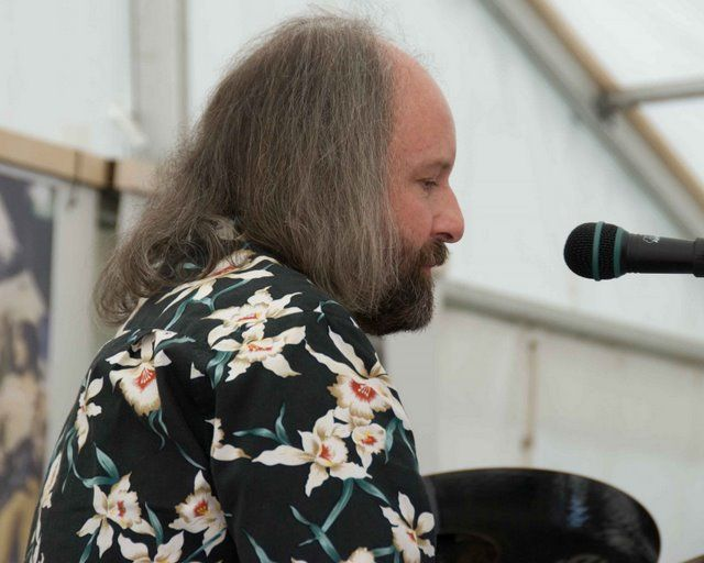 A photo of John Gosling of The Kinks. From Picasaweb creative commons.